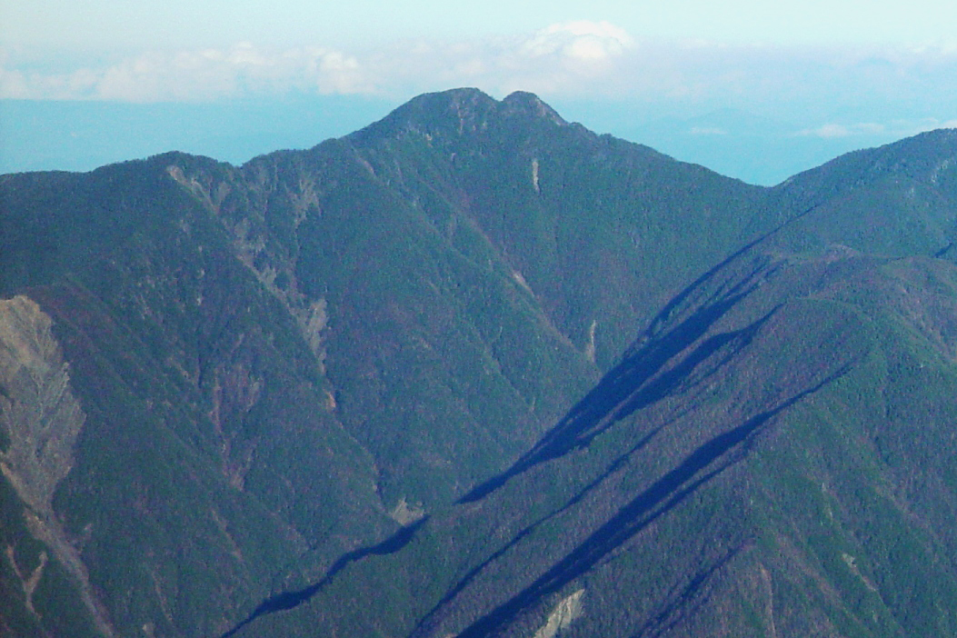 Mount Zaru (Zaru-ga-take) as seen from the WSW, in the Akaishi Mountains, Japan. Taken from Mount Kamikochi (Kamikochi-dake).